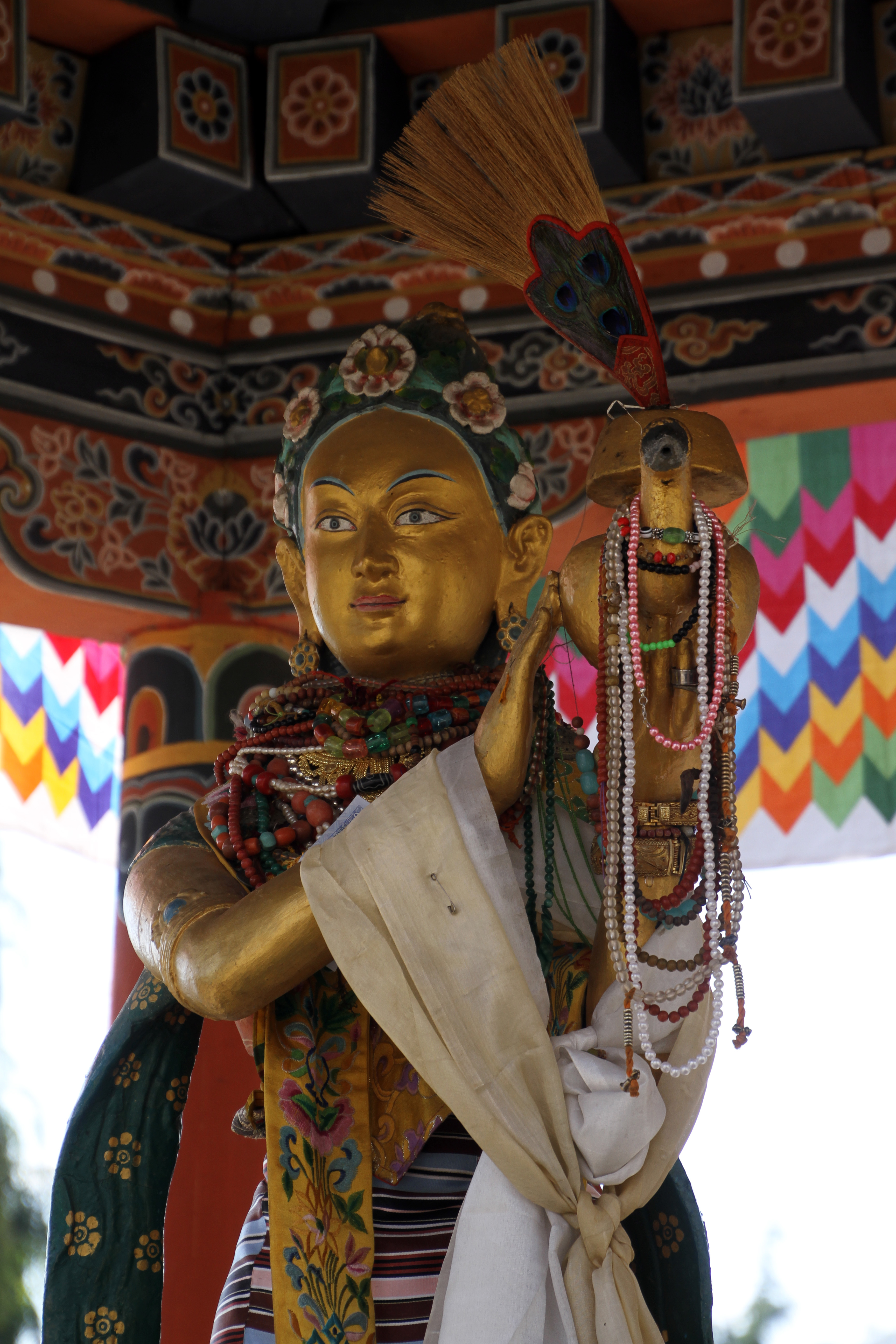 Memorial Chorten, Thimphu